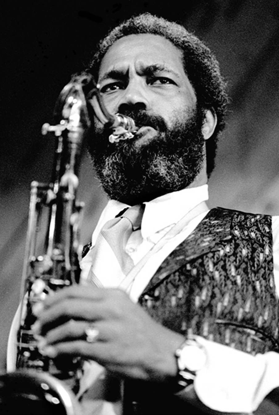 Clifford Jordan performing with Barry Harris in 1980. Photo: Brian McMillen